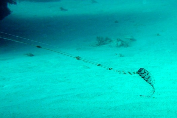 Ænglisc: A juvenile Scalloped Ribbonfish at a depth of 7m, Passe en S, Mayotte